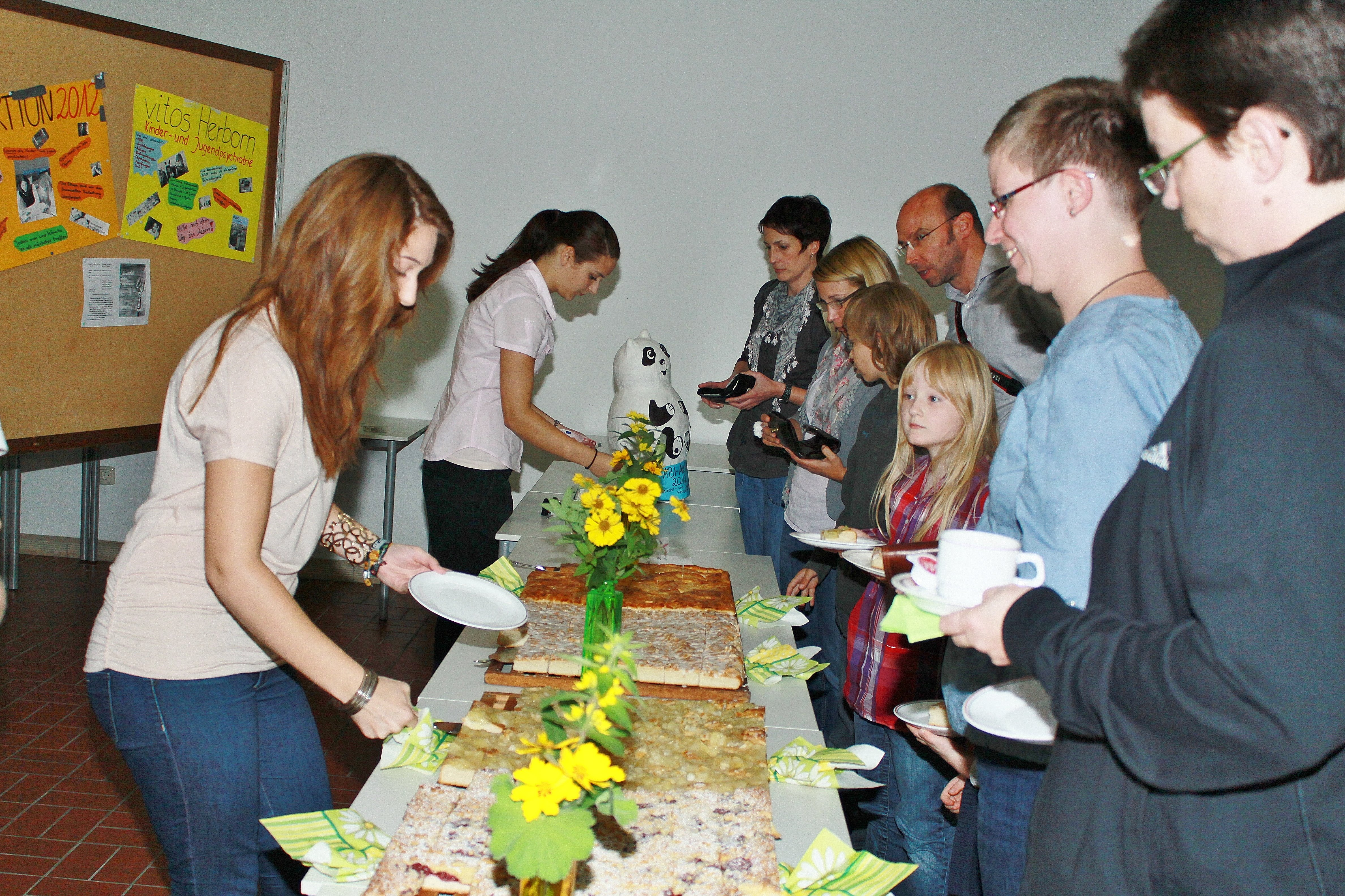 Kuchenverkauf für die Abi-Aktion am Privaten Gymnasium Marienstatt